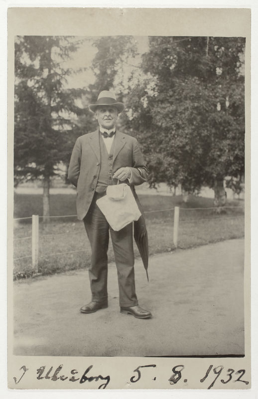 Photograph of the Finnish linguist Hugo Bergroth (1866–1937).